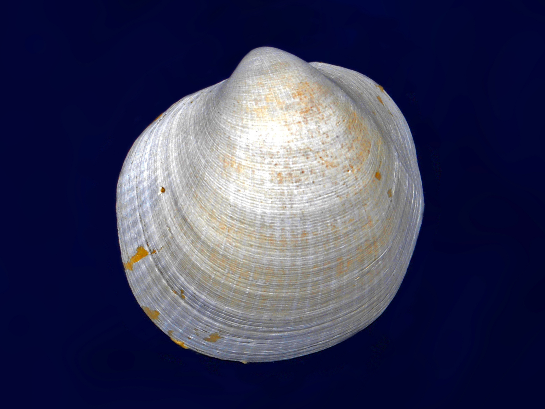 Fossil valve of Glycymeris inflata from the Pliocene of Italy, on display at the Museo Paleontologico, Asti